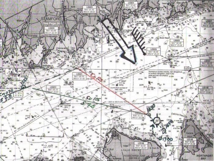 Map I made showing theory on last position of Gwendoline Steers